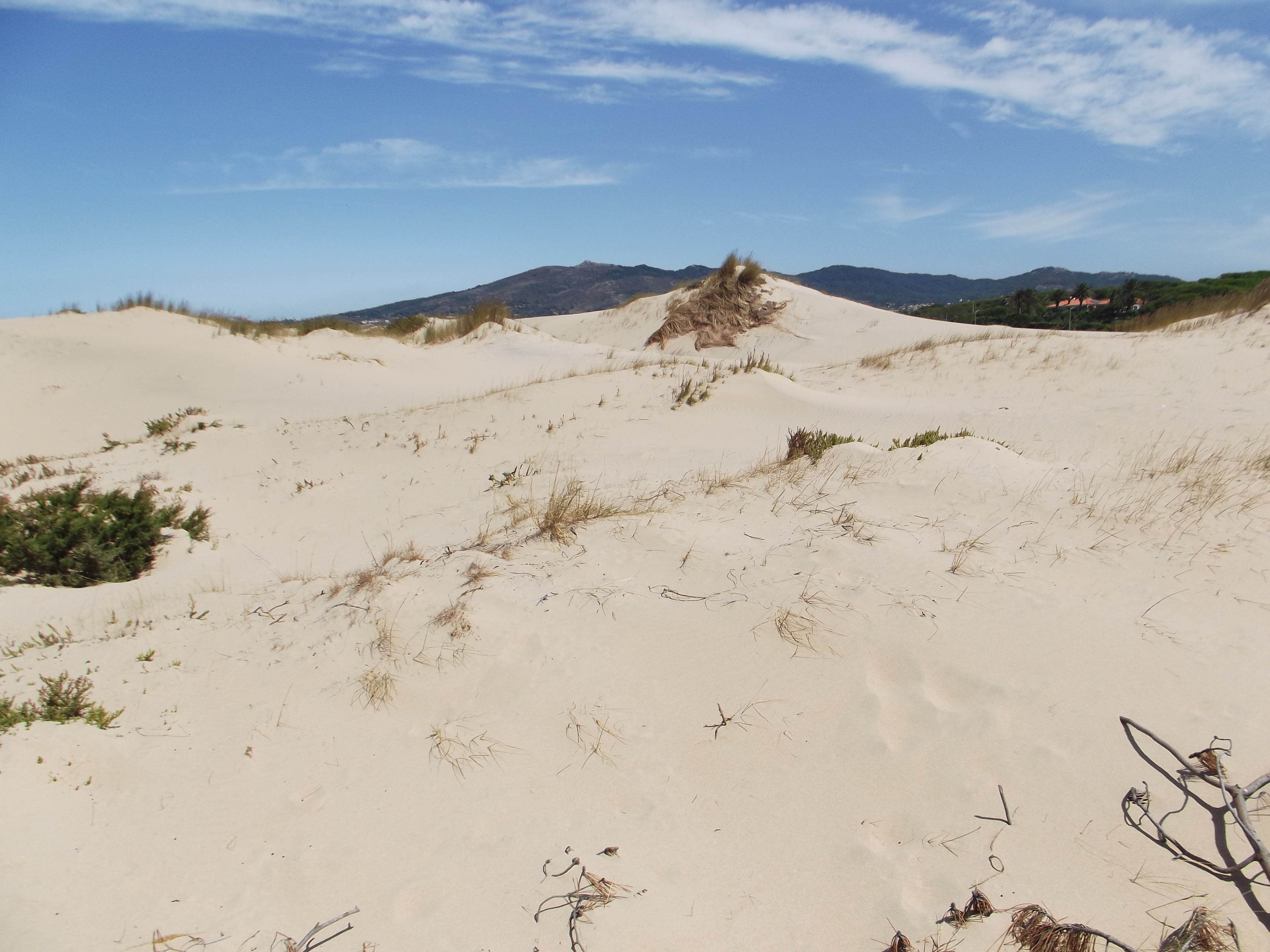 View of the dunes of Cresmina, near Cascais, Portugal